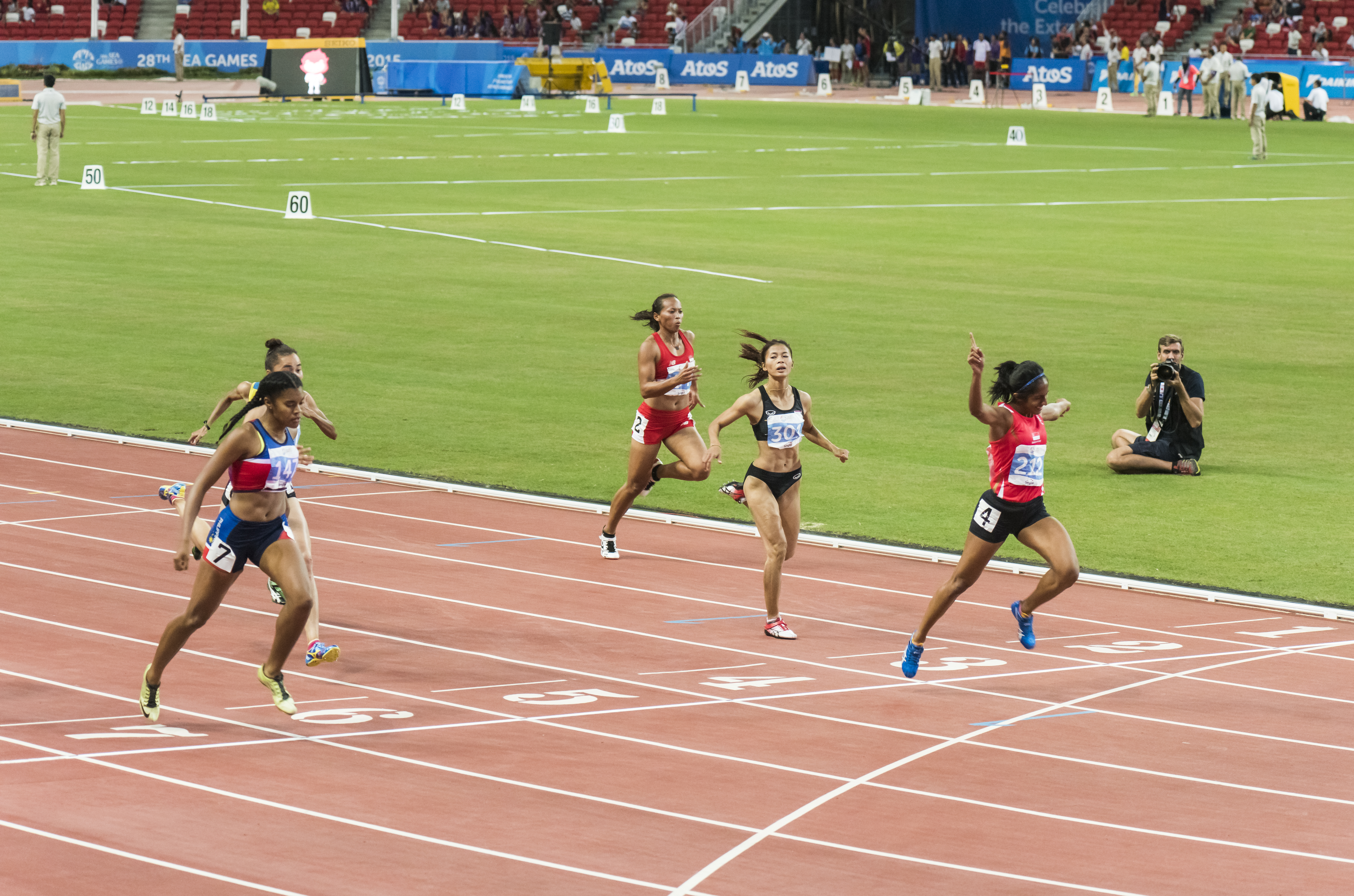 shanti pereira 2015 sea games 200m final gold medal and record